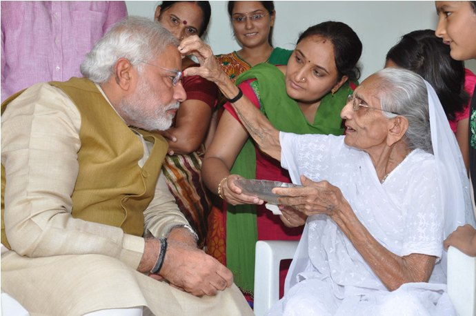 Shri Narendra Modi seeks blessings from mother after victory in 2014 Elections